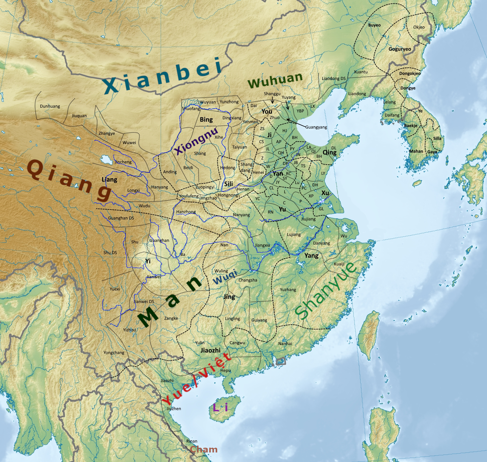 Topographic 3K Map